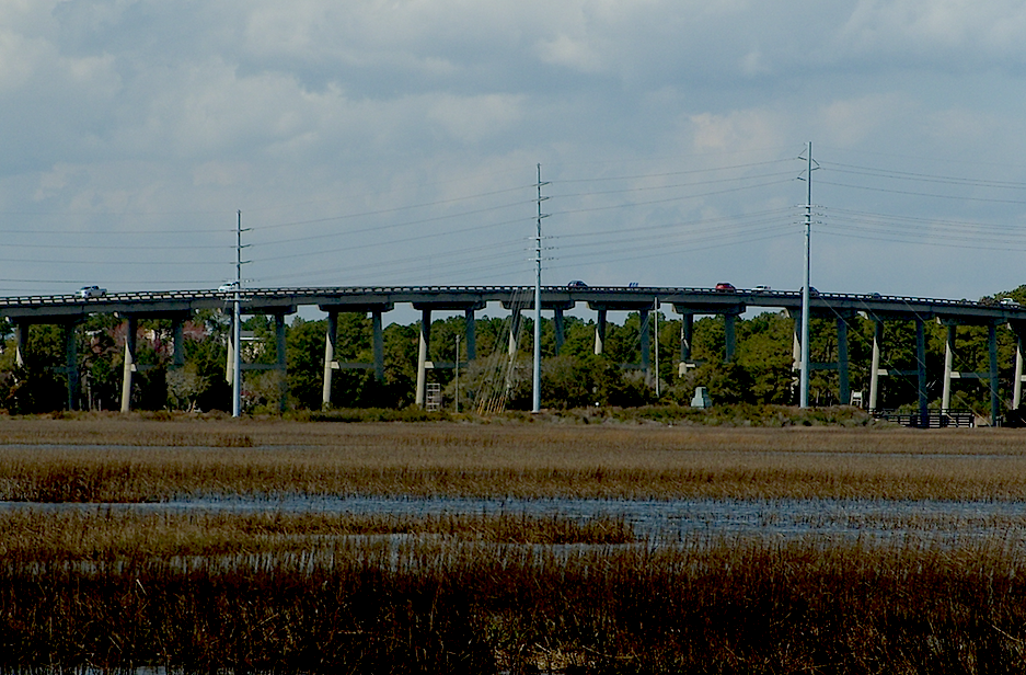 View from Oak Island looking northwest at the Barbee Bridge